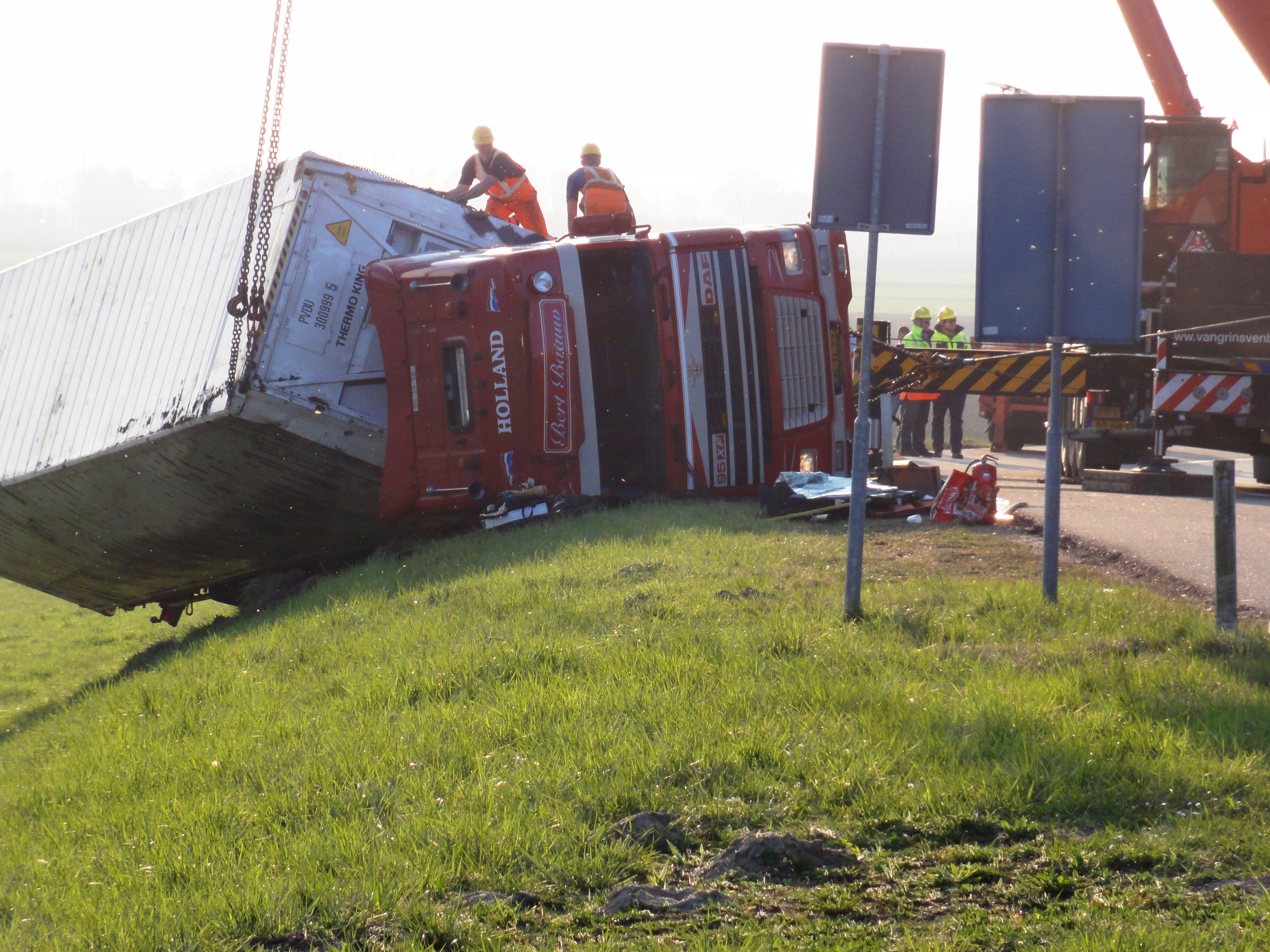 Elst (Overbetuwe) 2012-03-23 Trucking accident